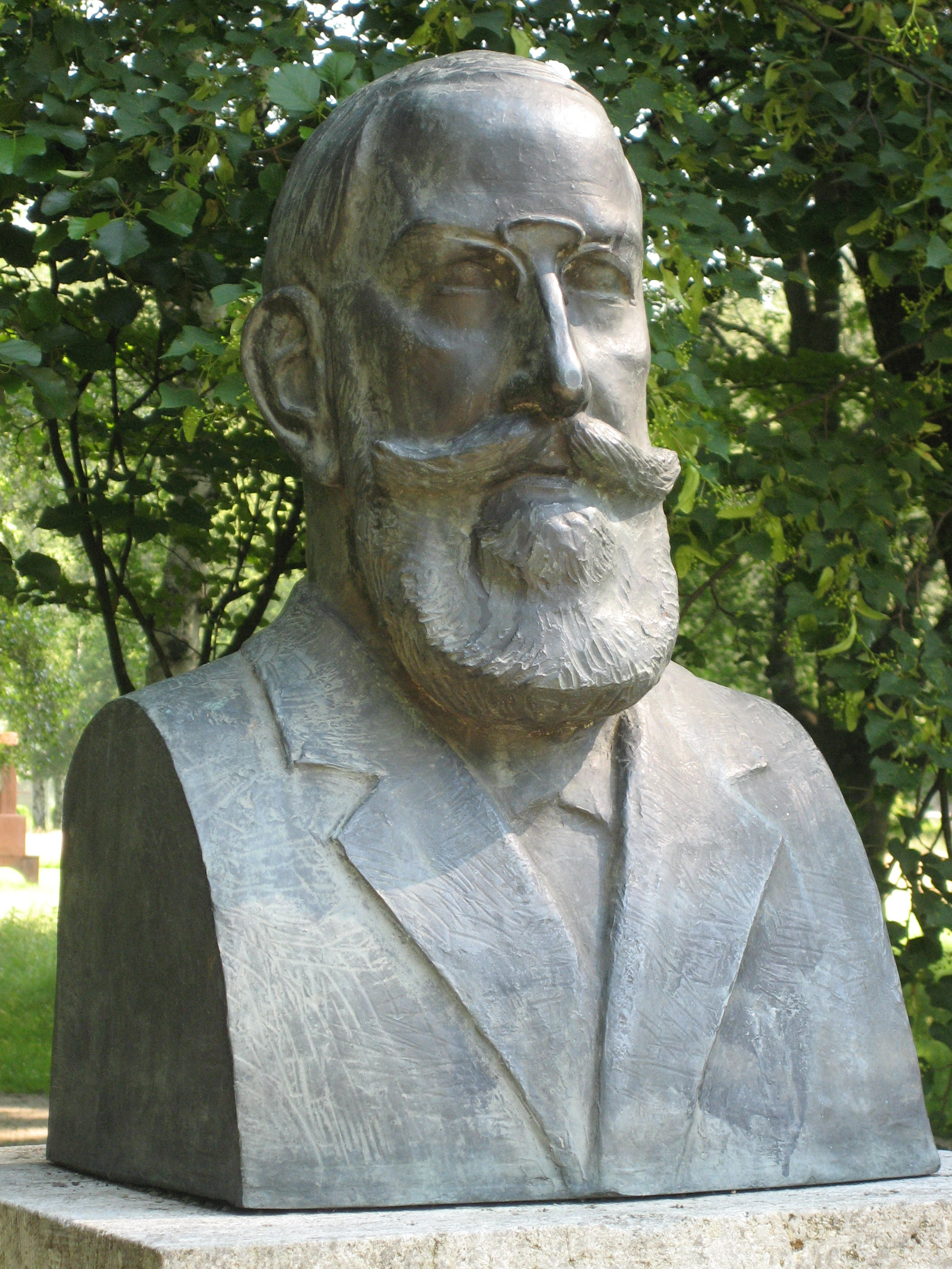 Bust of Maximilian Bircher-Benner installed in the Kurpark, Bad Homburg, Germany. A bronze plaque affixed to the limestone (Muskelkalk) footing of the bust is inscribed: "Dr. Med. Max Oskar Bircher-Benner, der Vater der neuen Ernährungslehre 1867-1939" (Dr. Max Oskar Bircher-Benner, the father of the new nutrition teachings 1867-1939). The bust was created by the Frankfurt sculptor Georg Krämer, and was unveiled in 1965; it was a gift of the Gesellschaft für Gesundheitskultur, which is an organization that had been presided over by Bircher-Benner.[1]